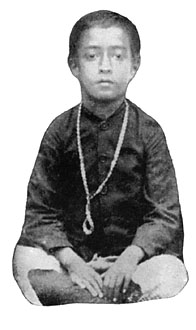 From Public Domain version of Autobiography of a Yogi, at